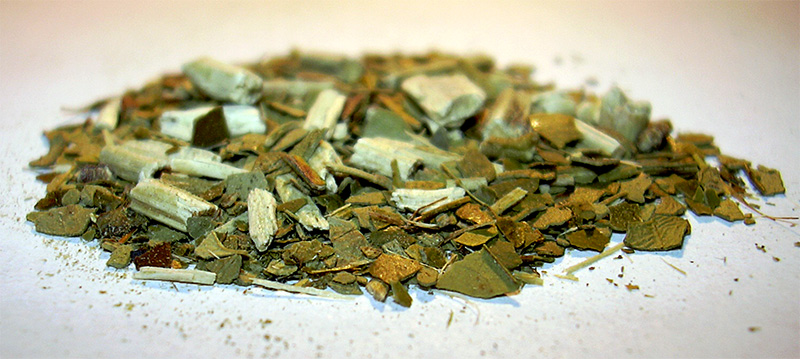 This image shows a close-up of mate tea with stems.